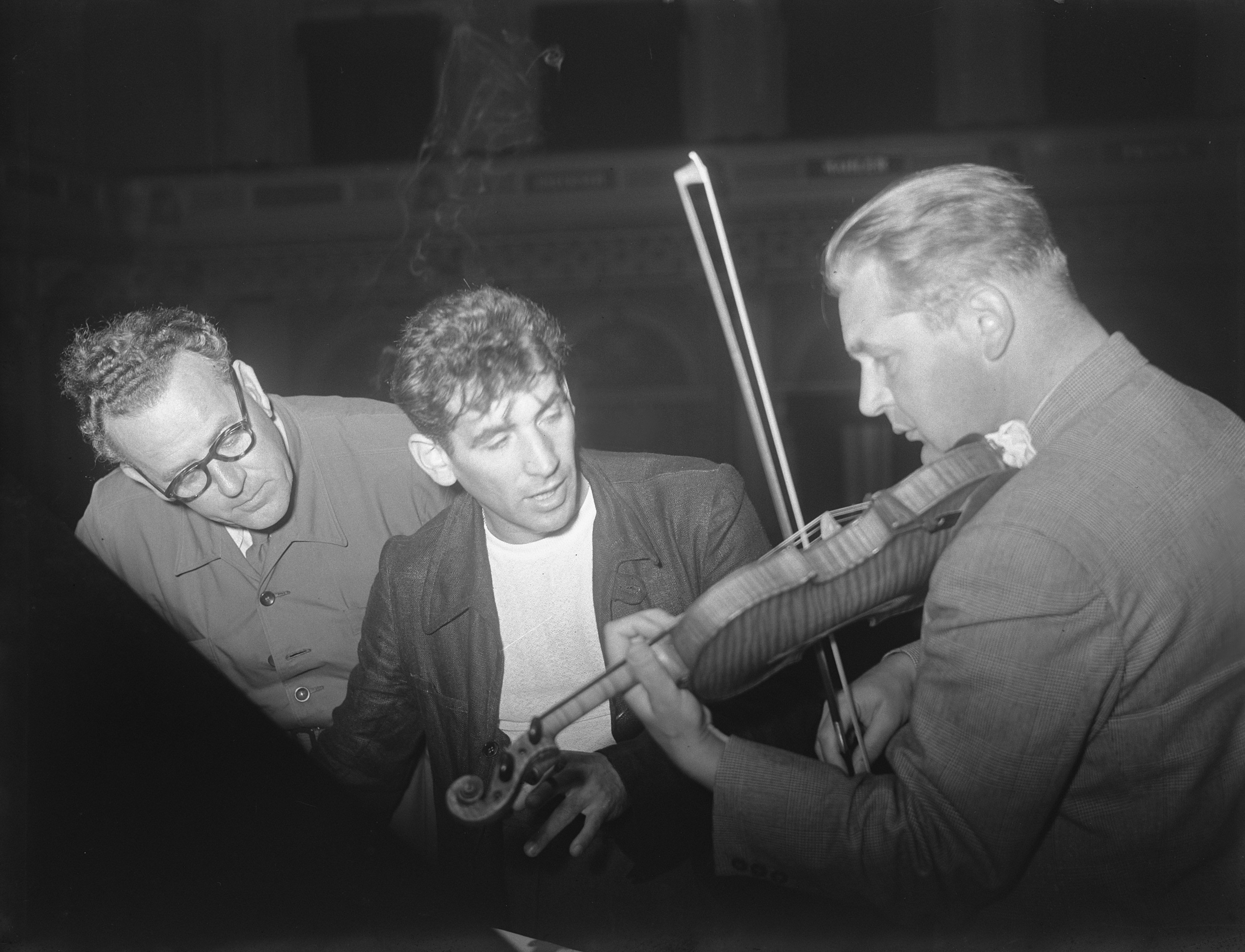 Leonard Bernstein at the Concertgebouw Orchestra, watching first violinist Jan Damen. (Amsterdam, 5 Sept. 1950)